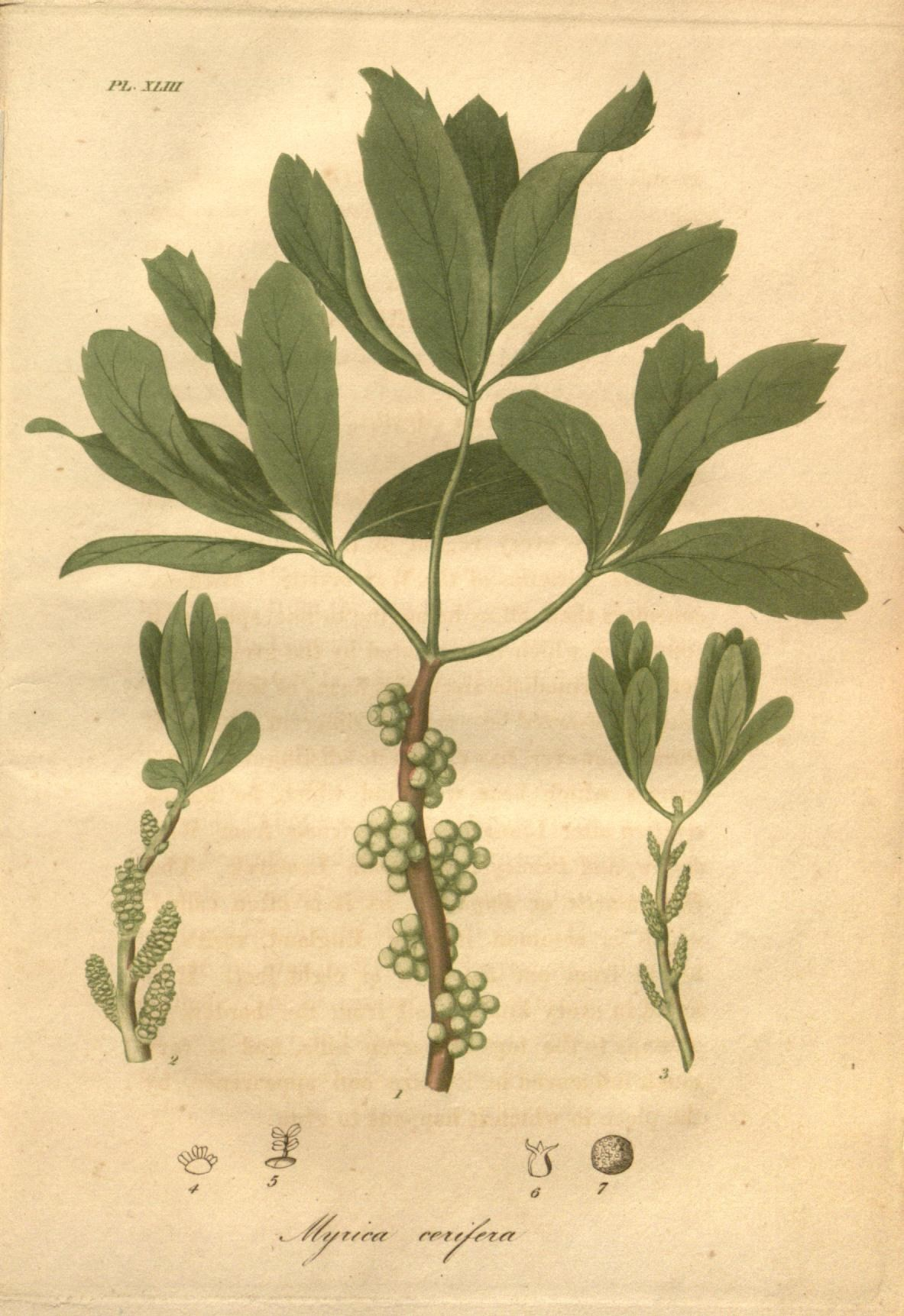 American medical botany :. Boston:Cummings and Hilliard,1817-1820..